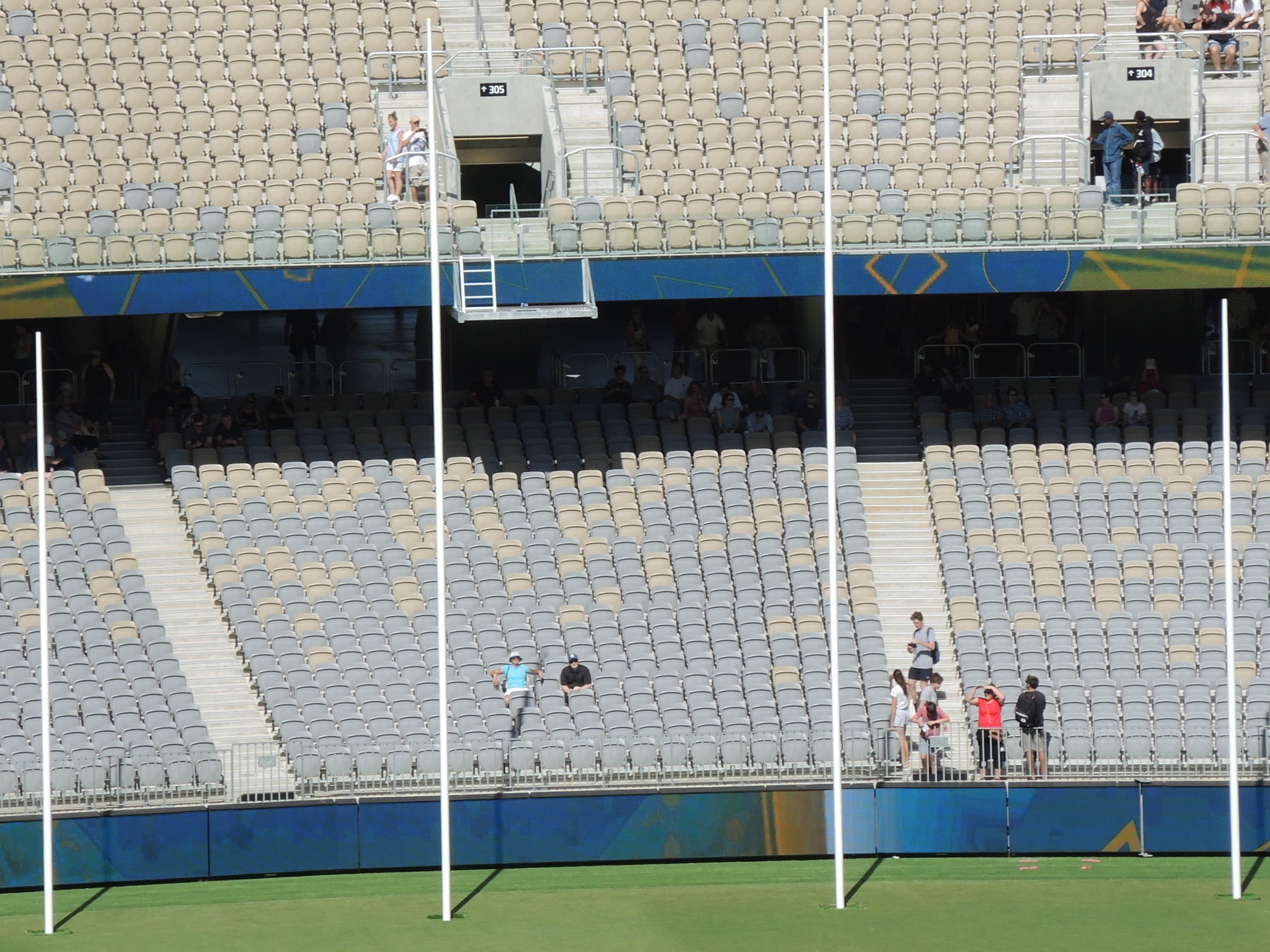 Australian rules football goalposts at Perth Stadium